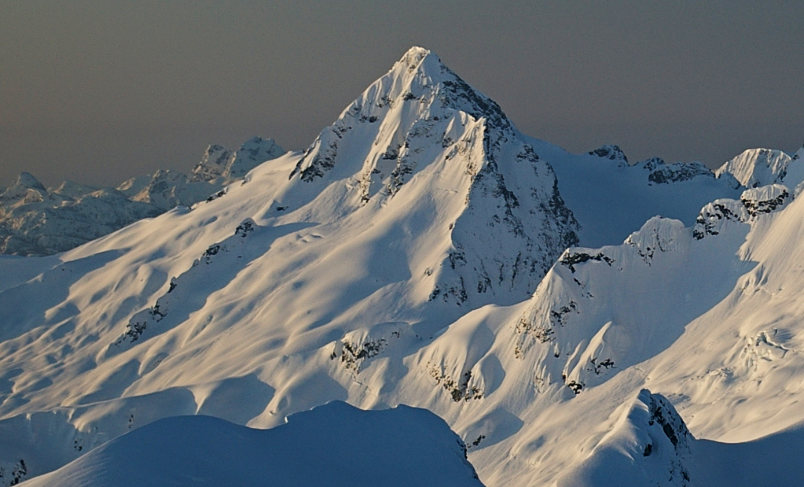 Alpha Mountain in white